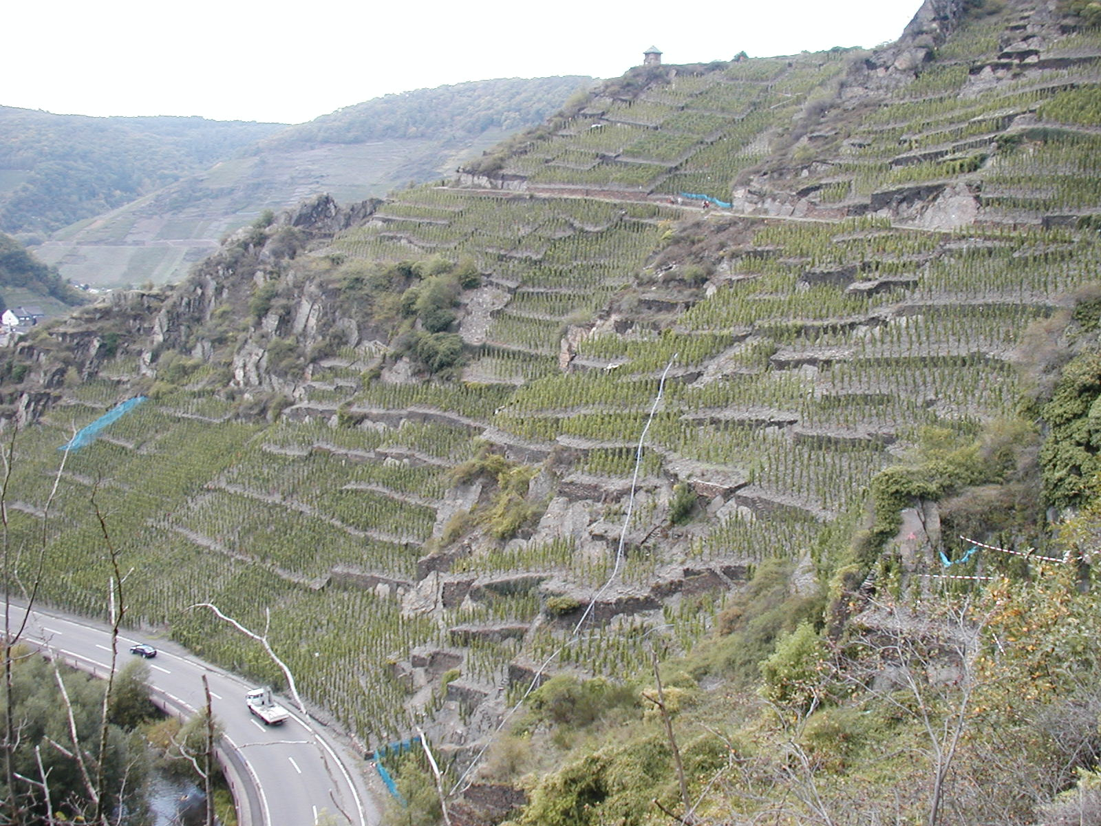 Wine hills near Mayschoß at Ahr.